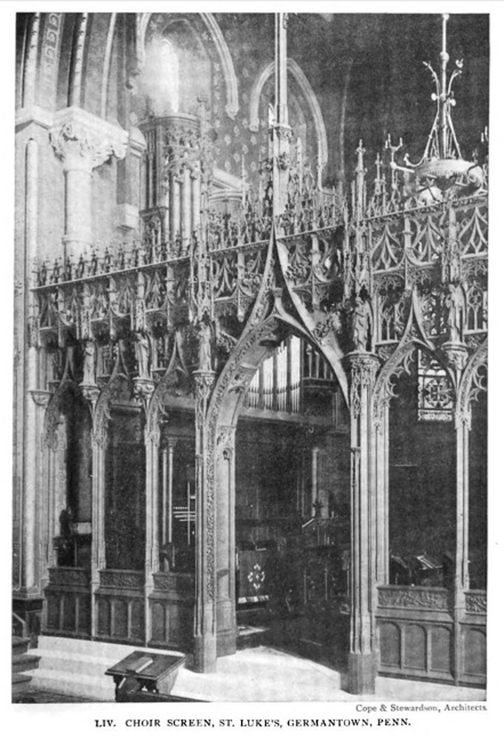 Plate 54: Choir screen, St. Luke's, Germantown, Penn.